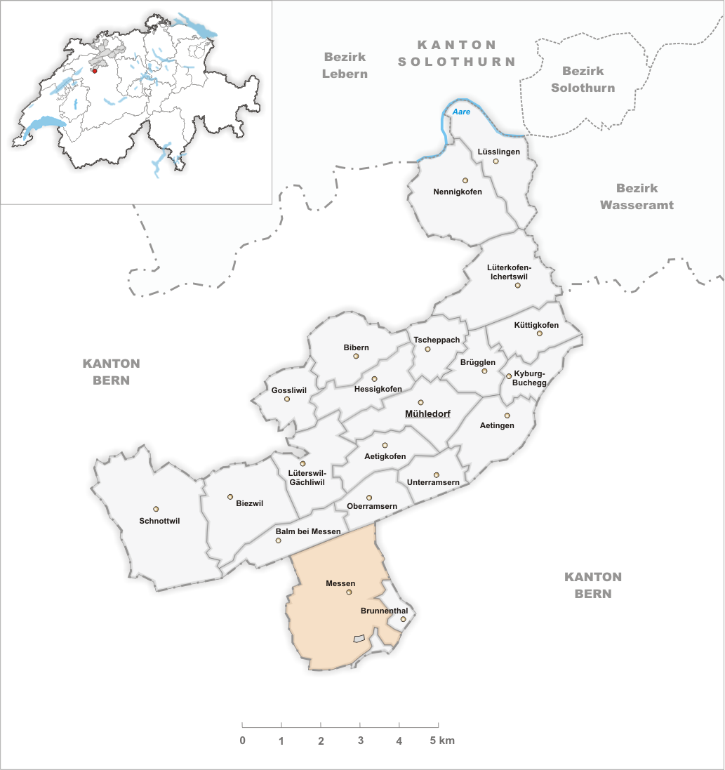 Municipality Messen